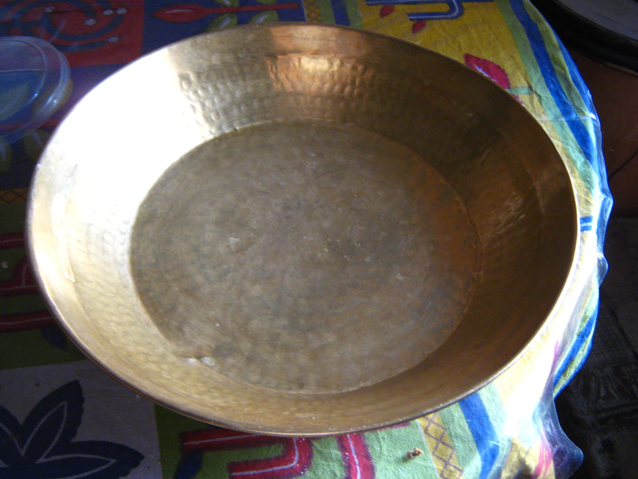 Utensil used in Indian Kitchen